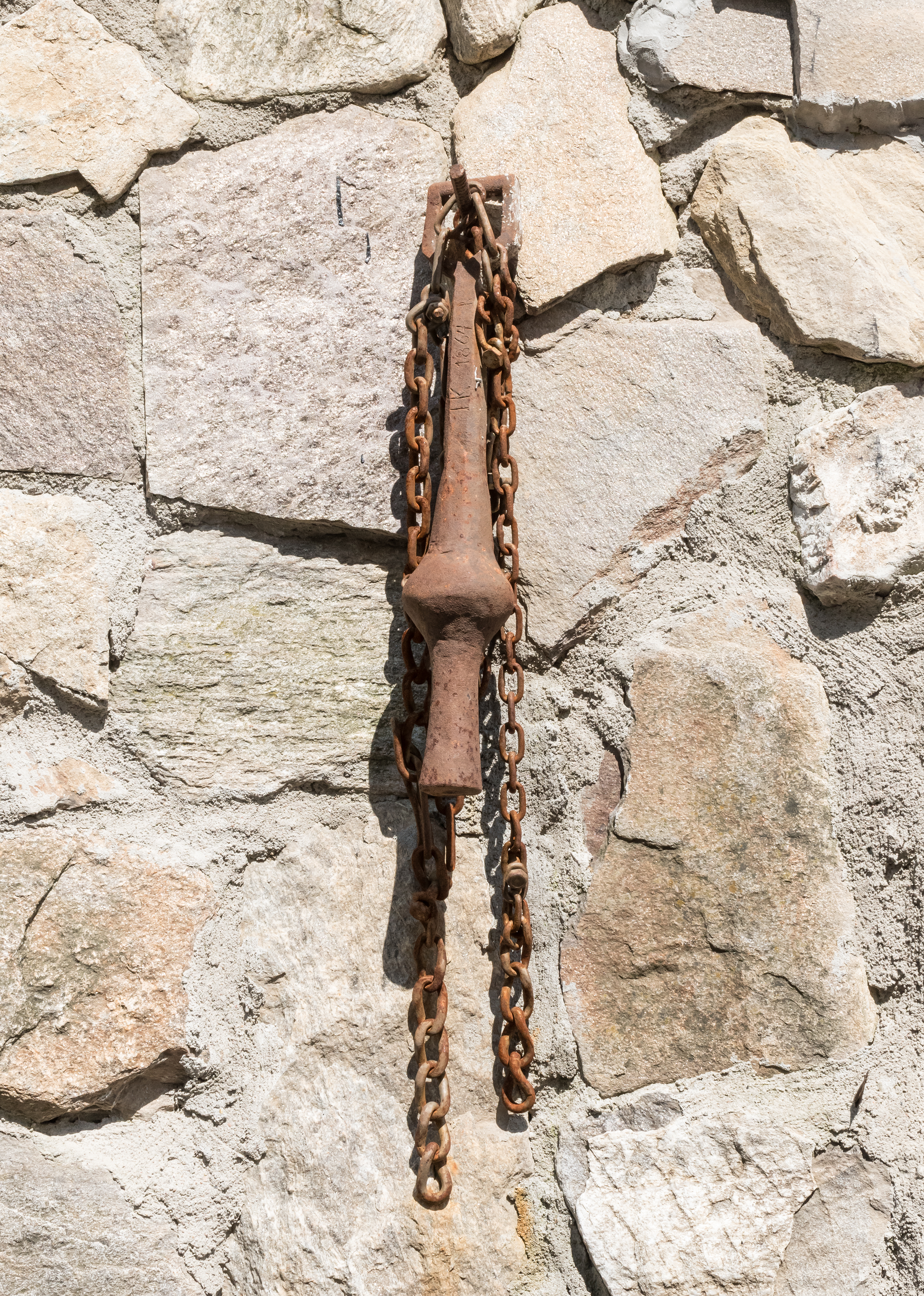 Cemetery at the church in Nowy Gierałtów